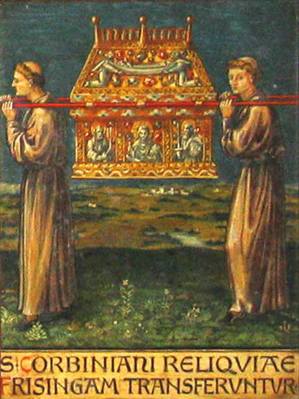 Depiction of St. Corbinian's relics being moved to Frising. From a panel in the crypt